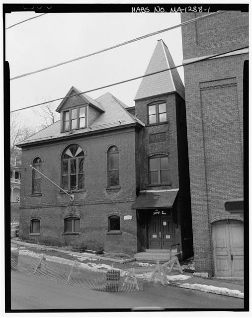 Grand Army of the Republic Memorial Hall, 14 Prospect Street, Orange, Franklin County, MA, turreted main entrance